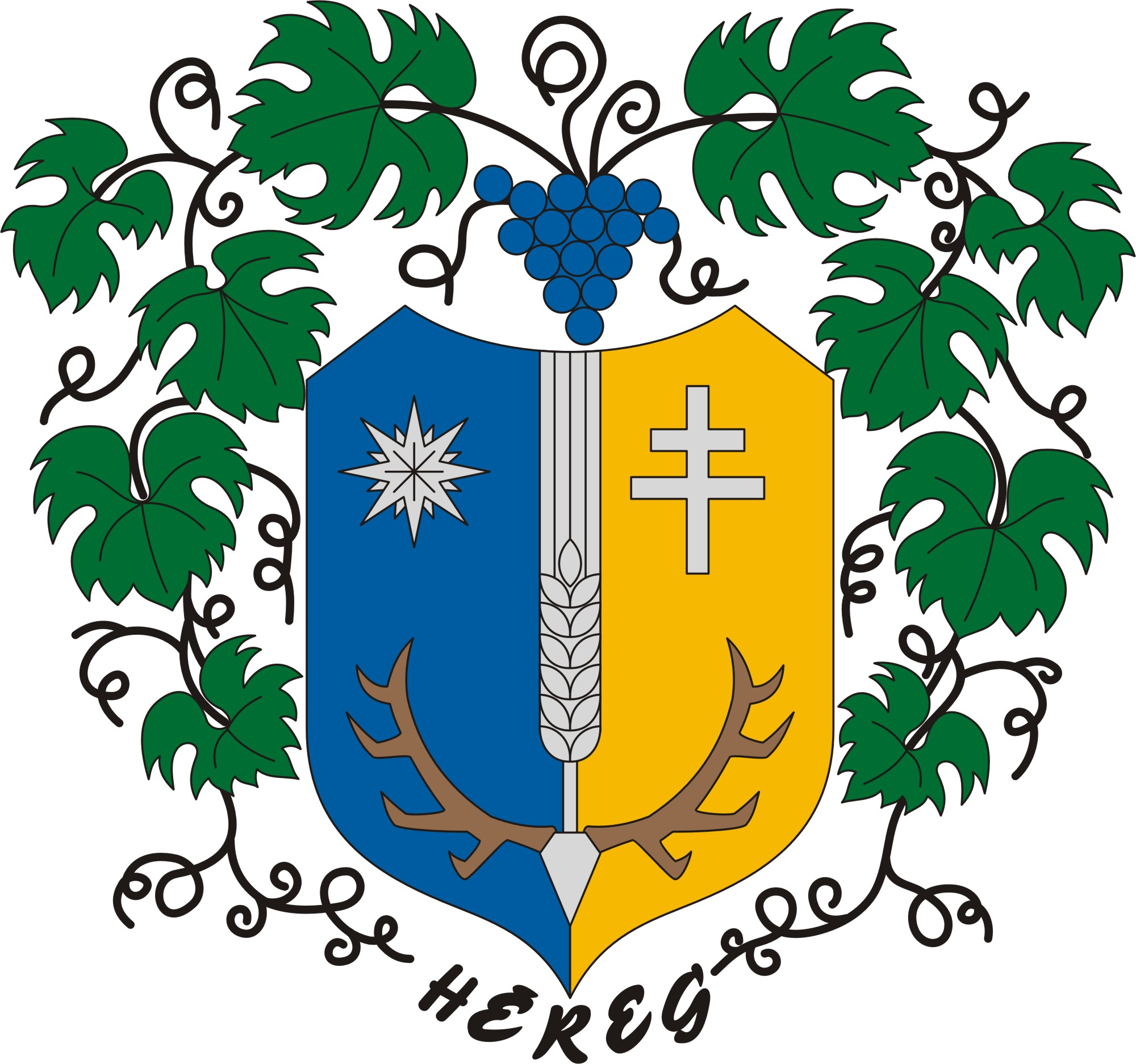 Coat of arms of Héreg, Hungary